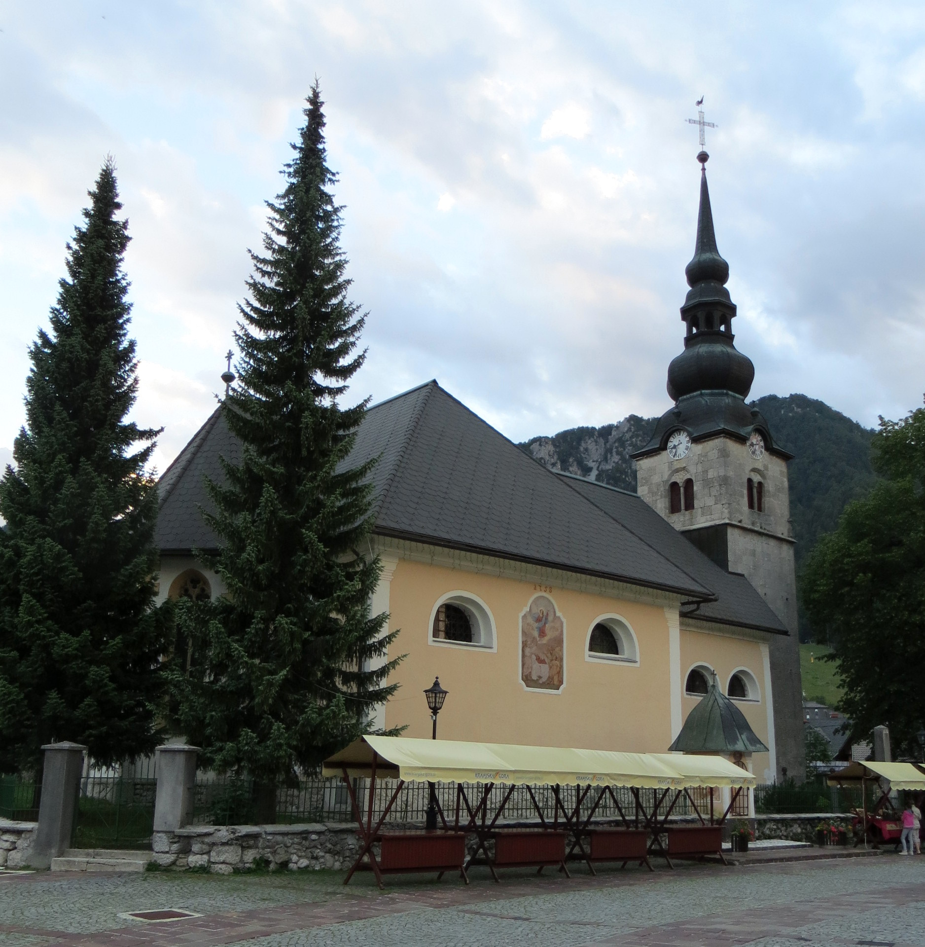 Assumption Church in Kranjska Gora, Municipality of Kranjska Gora, Slovenia